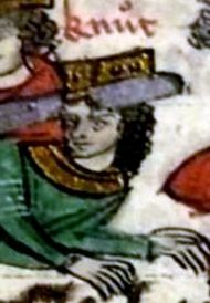 Canute V of Denmark